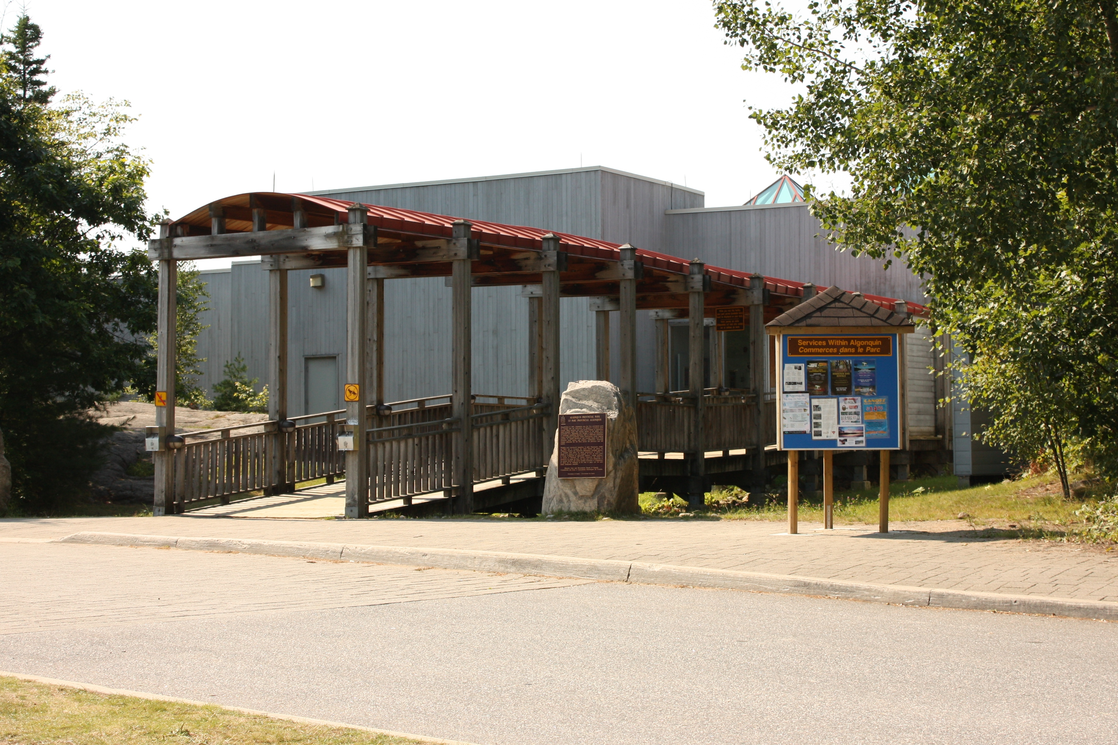 Exterior shot of the the Algonquin Provincial Park Visitor Centre